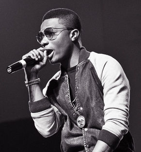 Wizkid performing at the Iyanya vs. Desire album launch concert in 2013